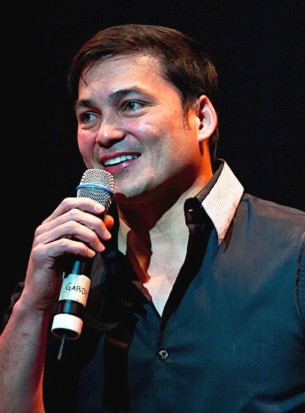 Gabby Concepcion at the KC Concepcion Live US Concert Tour on November 12, 2010.